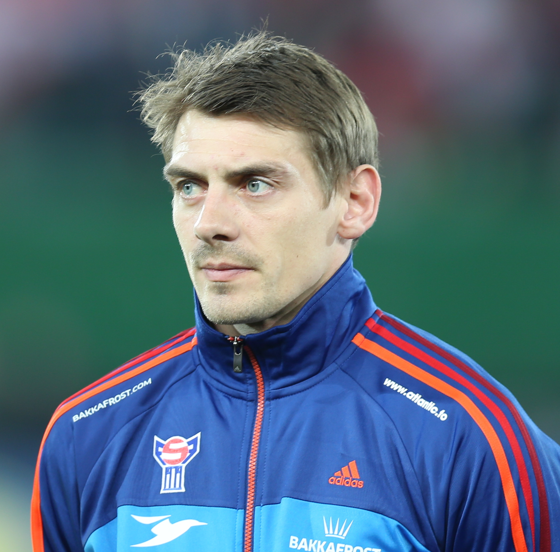 2014 FIFA World Cup qualification (UEFA), Group C: Austrian national football team vs. Faroer Islands national football team (6:0) at 22. March 2013 in the Ernst-Happel-Stadion in Vienna. Here: Fróði Benjaminsen, midfielder of the Faroe Islands. The making of this work was supported by Wikimedia Austria. For other files made with the support of Wikimedia Austria, please see the category Supported by Wikimedia Österreich.